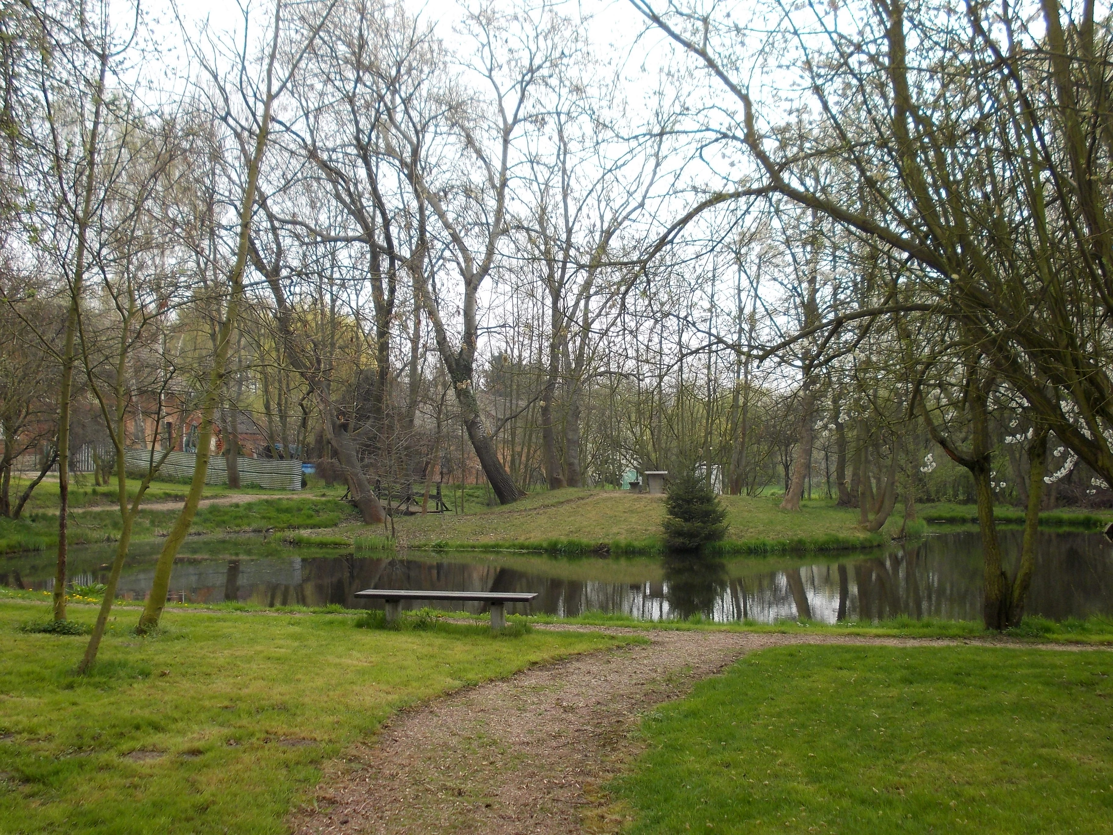 Wallteich in Pobles (Lützen, district: Burgenlandkreis, Saxony-Anhalt), place of an early medieval castle